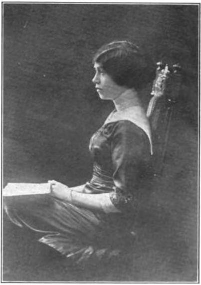 Photograph of Ruth Cranston that appeared under her pseudonym Anne Warwick in the Bookman (New York), April 1911.